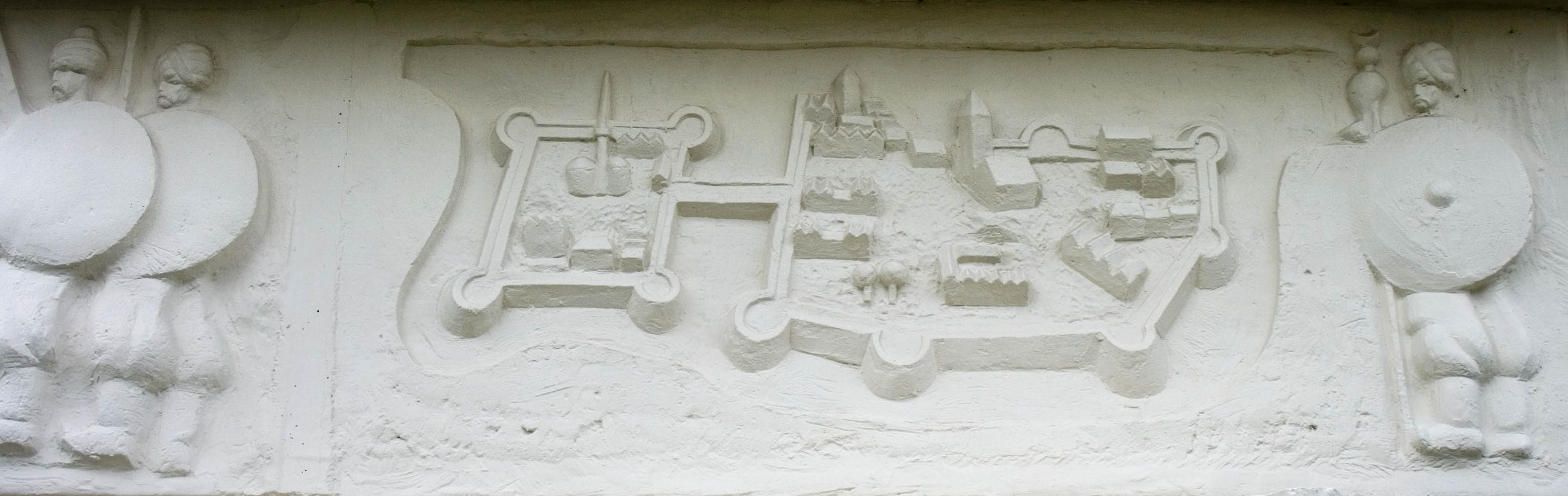 ~Witness Hill memorial, relief detail: Ottoman era soldiers and Castel of Szolnok - Szolnok, Jubilee Square